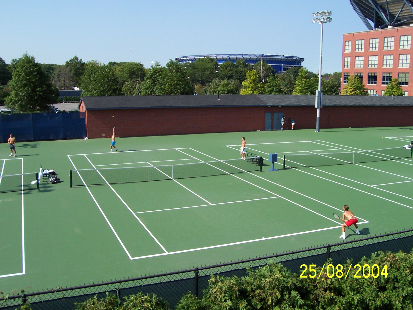 U.S. Open Practice Courts With New York Mets Shea Stadium (In Blue) In The Background.